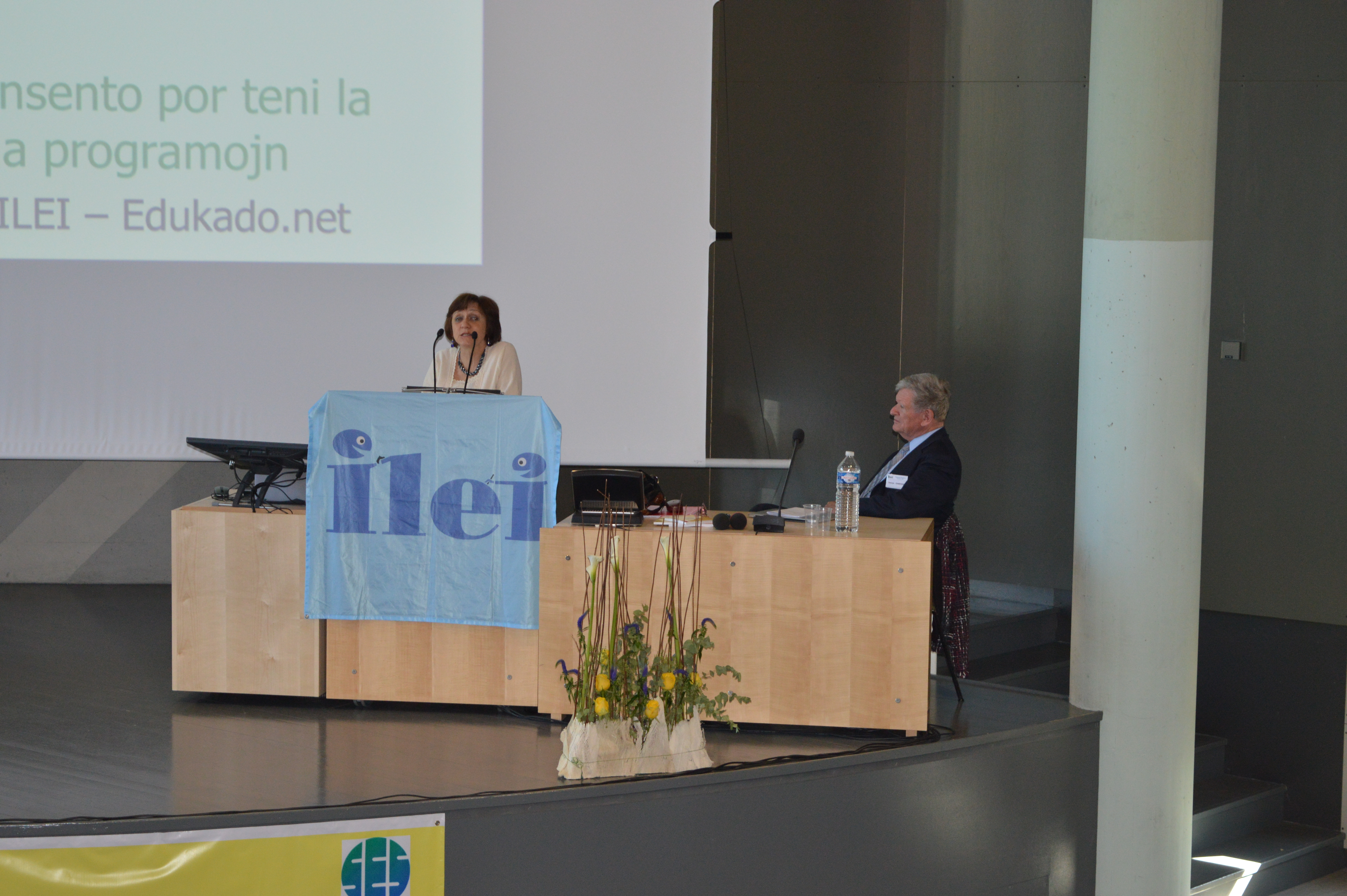 P-ro D-ro Ilona Koutny speaks during the third international conference on Esperanto teachting, canton of Neuchatel, SwitzerlandEsperanto: P-ro D-ro Ilona Koutny parolas dum la tria konferenco pri Esperanto-instruado, Neŭŝatelo, Svislando